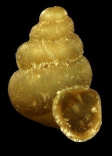 Photo of an apertural view of a shell of Bensonella plicidens.